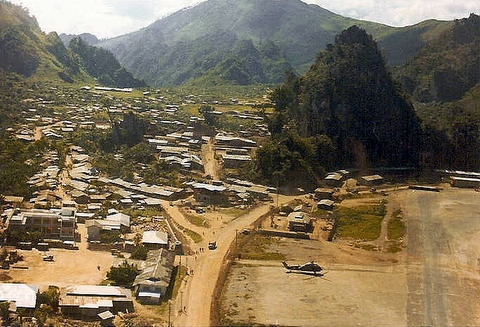 Long Tieng, Laos, in February 1974